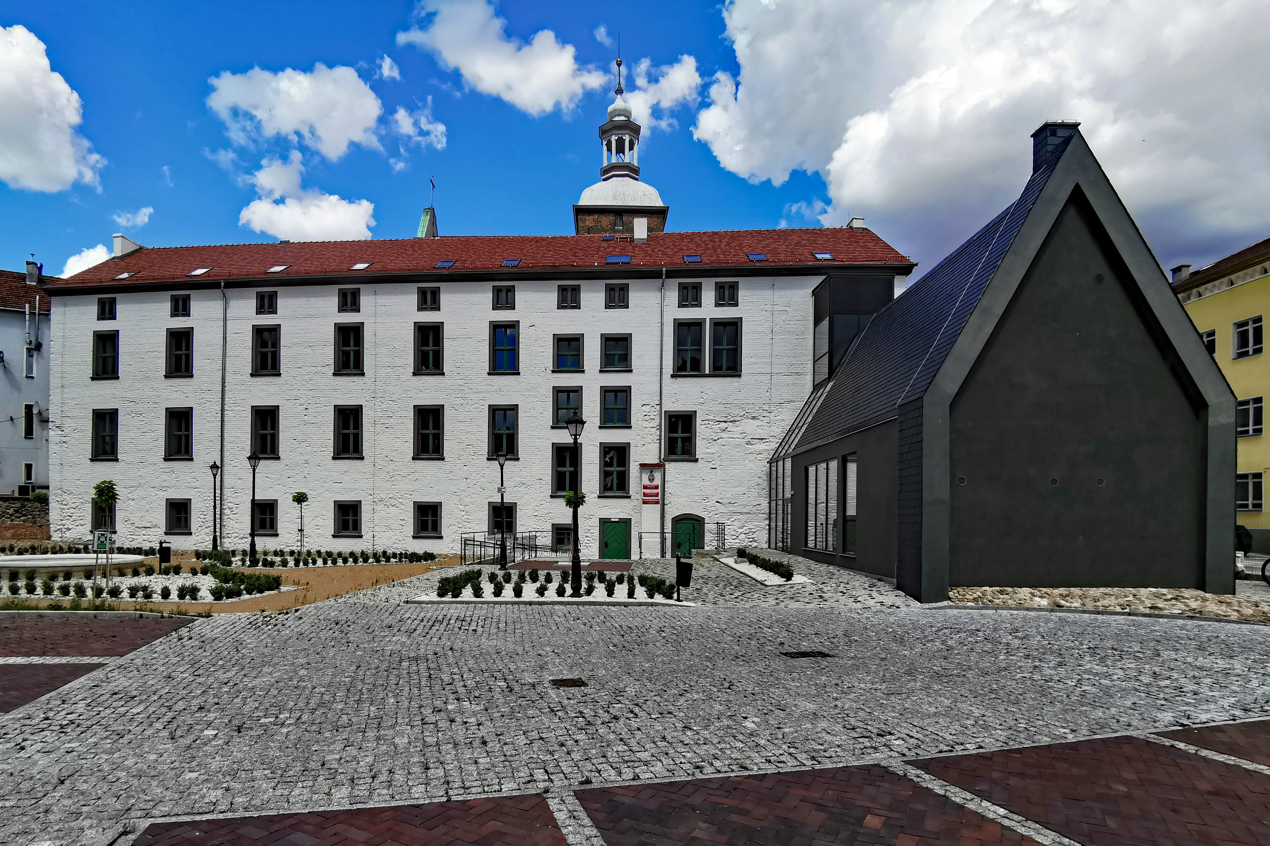 Former monastery in Szprotawa (Poland)